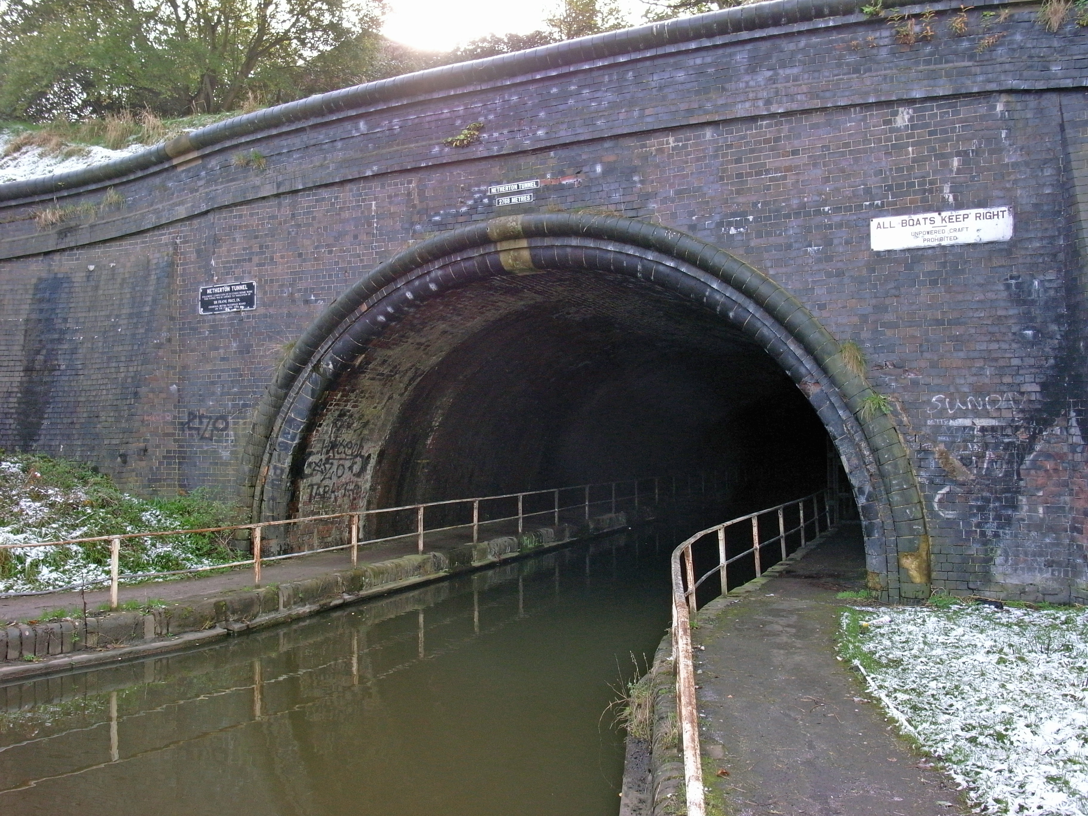 The northern portal of the Netherton Tunnel on the Netherton Tunnel Branch Canal (part of the Birmingham Canal Navigations in Tividale, West Midlands, England. The 2768 metre tunnal has a towpath on each side of the canal.